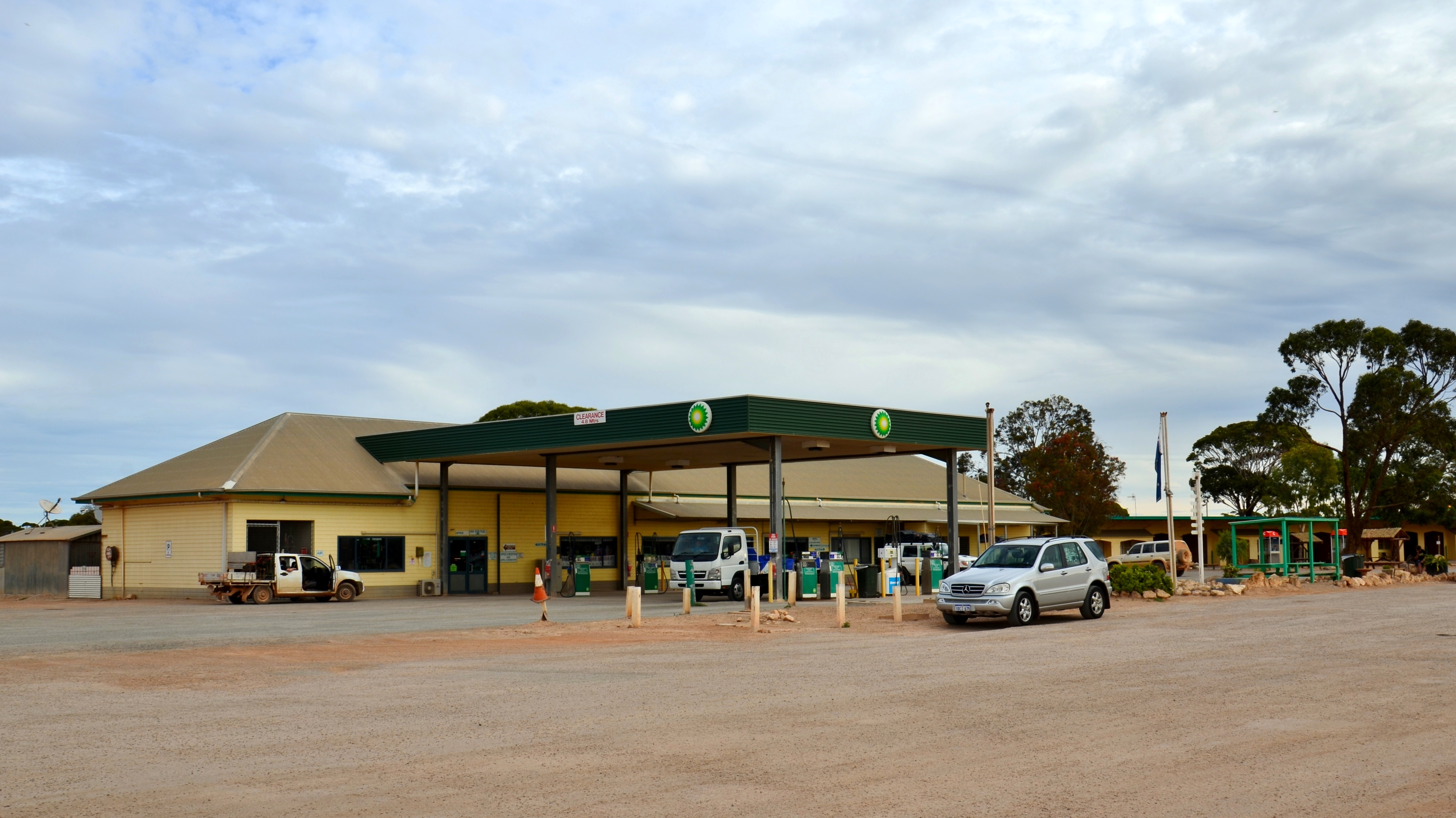 View of the roadhouse at Caiguna, Western Australia.